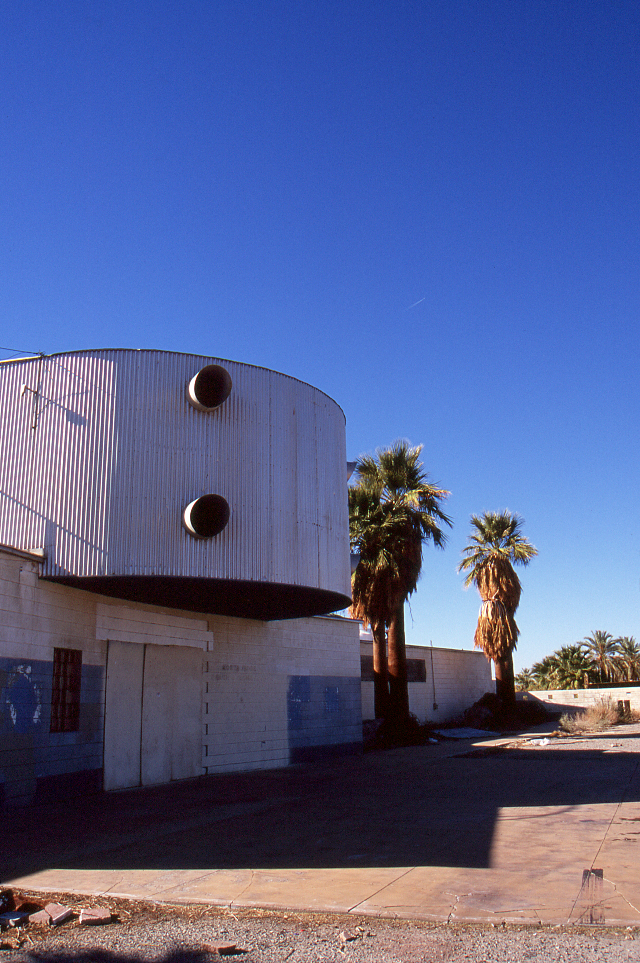 Mortmar Marina / Yatch Club, at the Salton Sea's East shore, Highway 111, Imperial Valley, but Riverside County, California, US of A